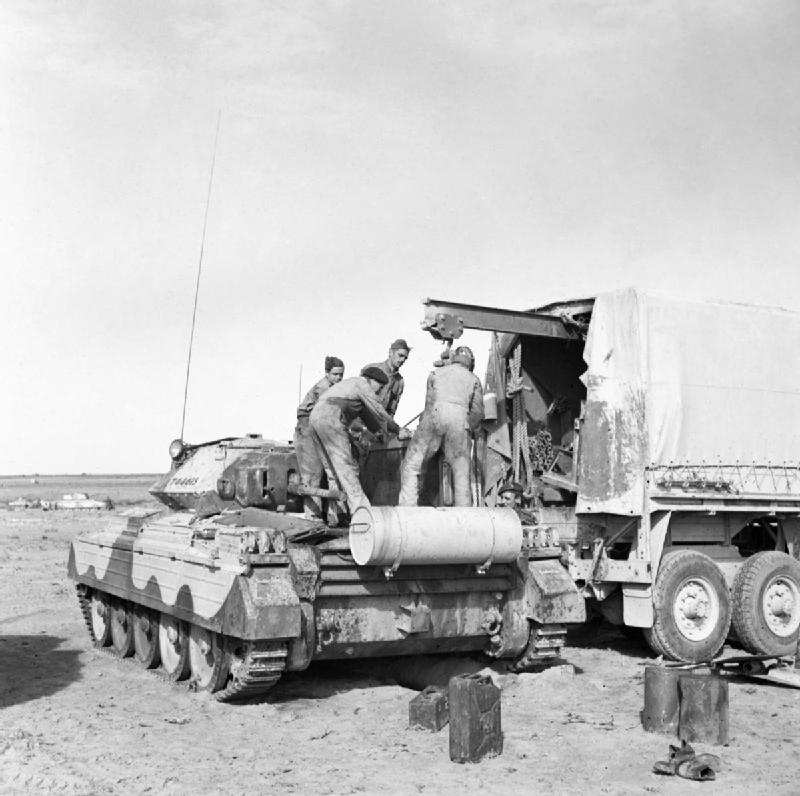 The British Army in North Africa 1943 A Royal Electrical and Mechanical Engineers breakdown lorry crew removes the radiator from a Crusader tank, 19 January 1943.